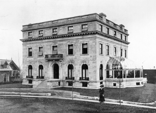 Sir Mortimer Barnett Davis House (1907), now Purvis Hall, 1020 Pine Avenue West, Montreal, Quebec, Canada.